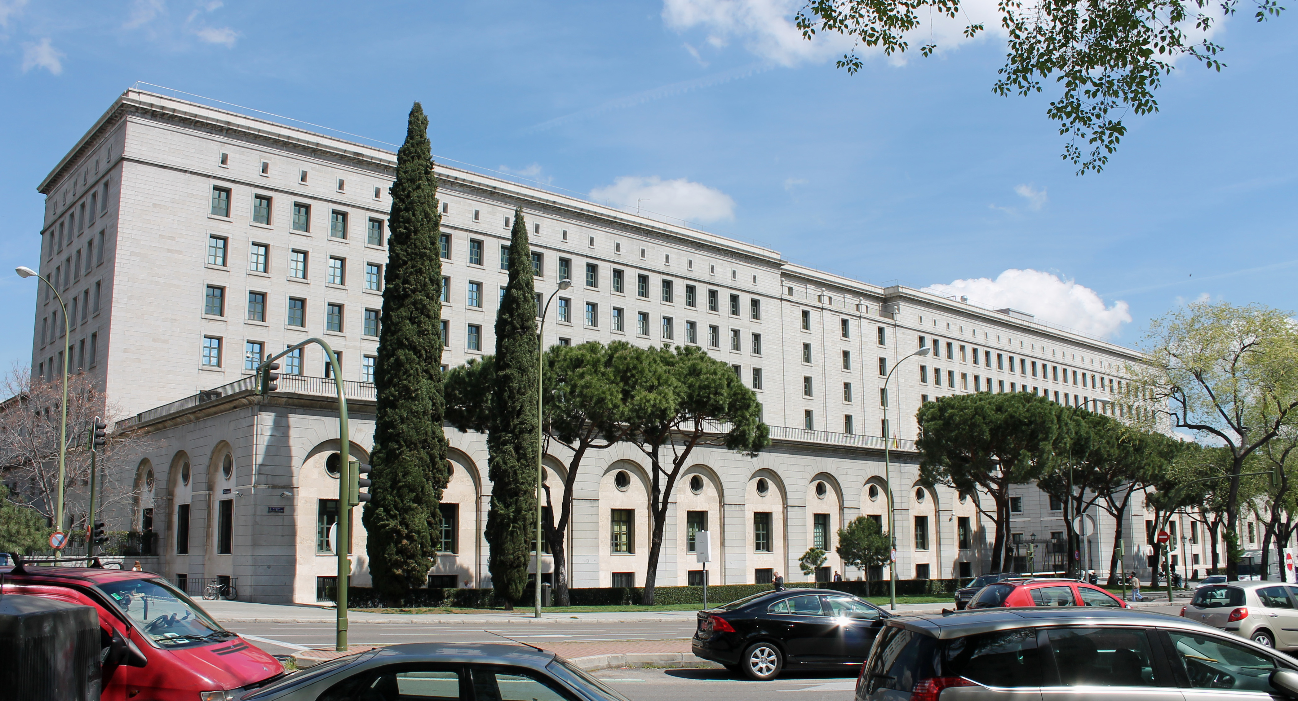 South façade of Nuevos Ministerios in Madrid (Spain).